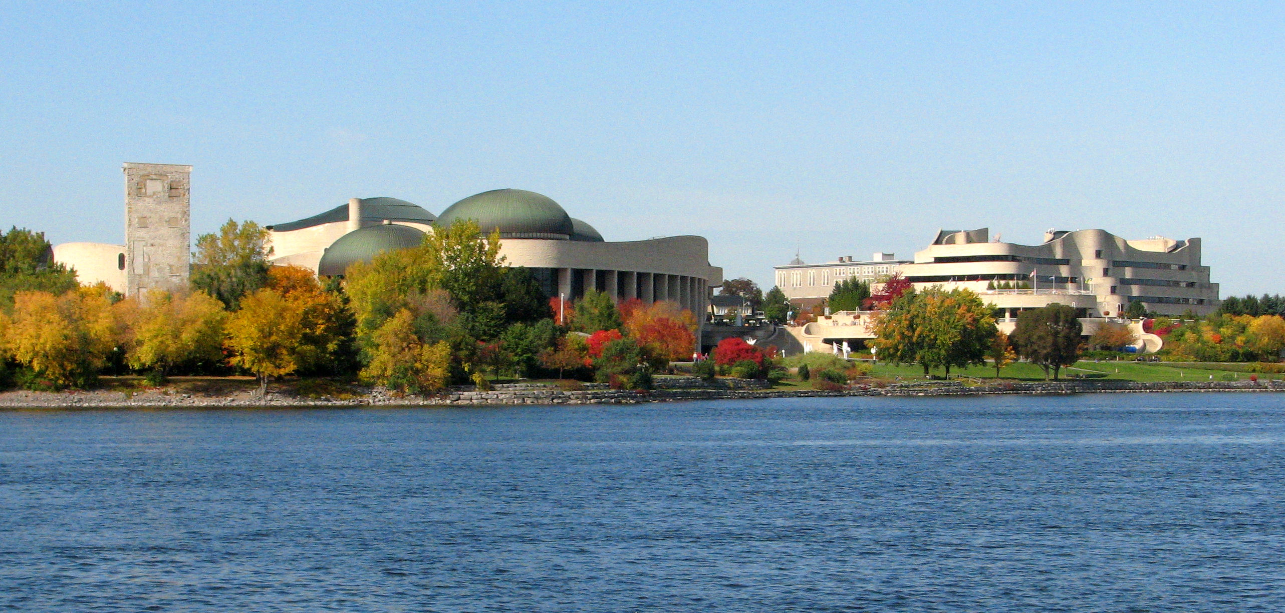 Canadian Museum of Civilization viewed from Ottawa, Gatineau, Quebec